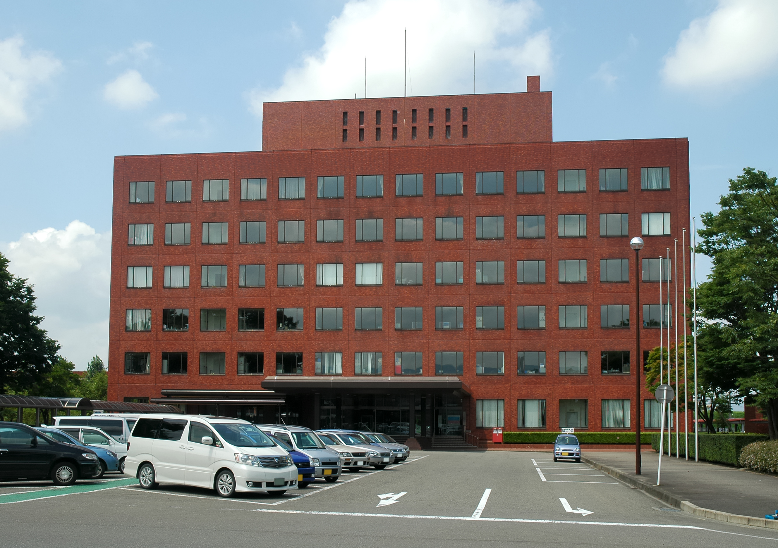 Saiwaichō sub office, Nagaoka City Hall (長岡市役所幸町庁舎)